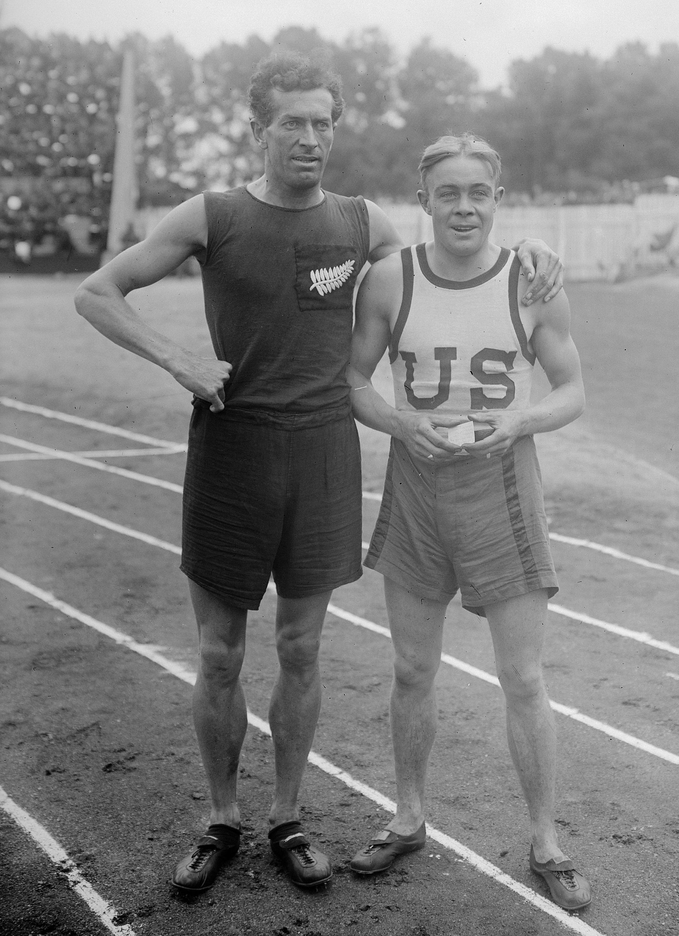 Earl Eby and Daniel Leslie Mason